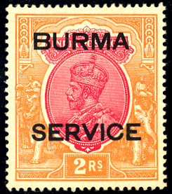 A 1937 postage stamp of India overprinted for official use in Burma.